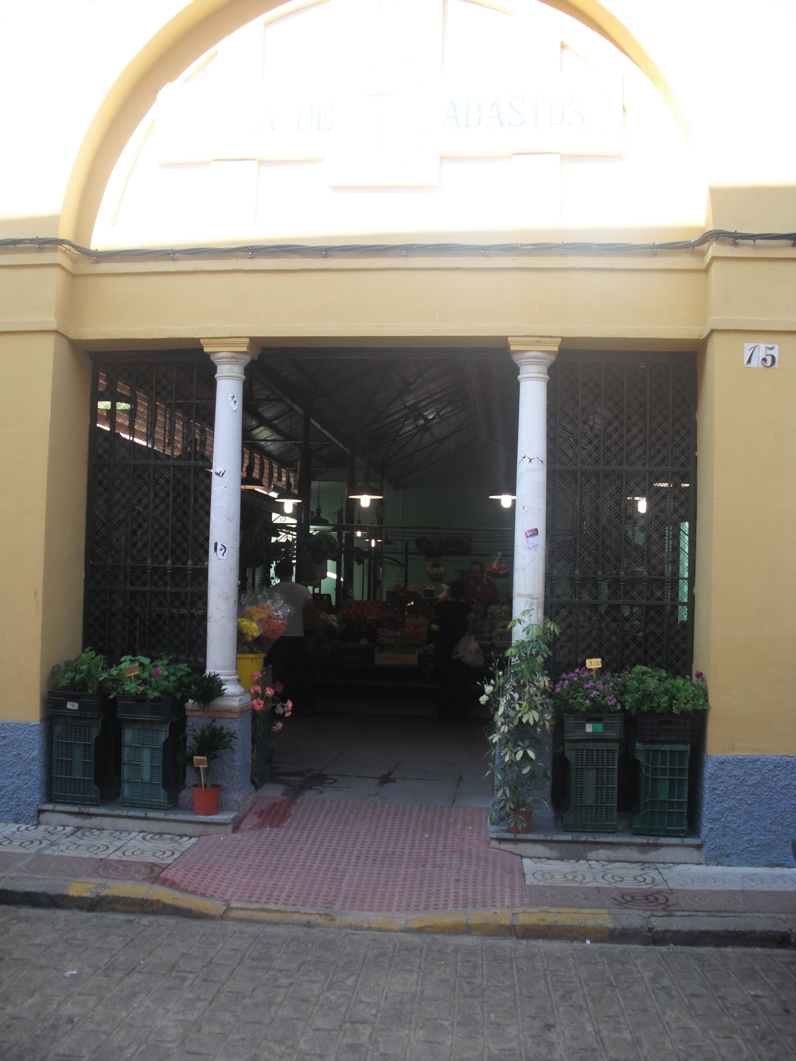 Entrance to the market in Lora del Río, Mercado in Lora del Río